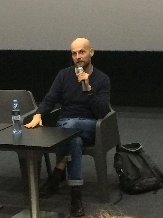 Ivan Vyrypaev at a meeting with moviegoers after watching the movie "dance Delhi" in the cinema MORI CINEMA (street Yartsevskaya, 19, Moscow).